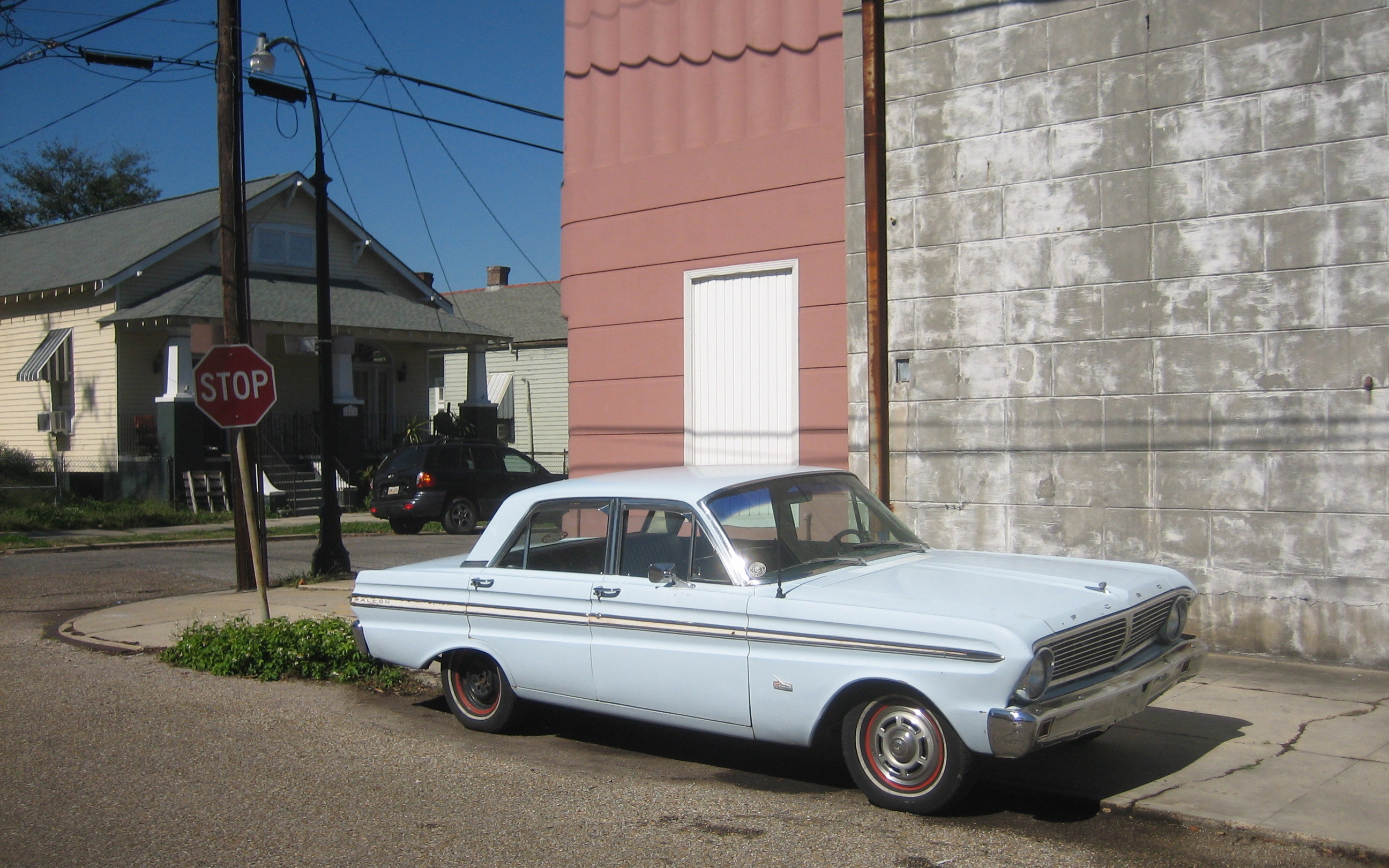 1965 Ford Falcon Futura on street in Algiers neighborhood of New Orleans